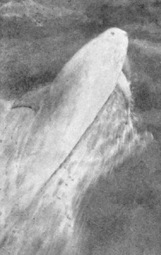 Pelorus Jack, a famous Risso's Dolphin from New Zealand. From Pelorus Jack: the White Dolphin of French Pass, New Zealand by J Cowan, 1911 (photo taken by Capt. C. F. Post, of the N.Z. Govt. SS Tutanekai).